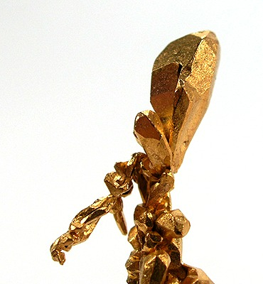 Gold Locality: near Santa Elena, La Gran Sabana, Venezuela Size: miniature, 3.7 x 1.1 x 0.4 cm Gold A truly elegant gold specimen for a miniature, with thick, sturdy crystals of several habits flying off of a central spinel-twinned stalk. Such specimens, of this calibre, are few and far between. Most Venezuelan golds are squat and fat crystals which lack such elegant arborescent form, or just tiny. These stout crystals are quite different than the more common California material. 3.7 x 1.1 x 0.4 cm